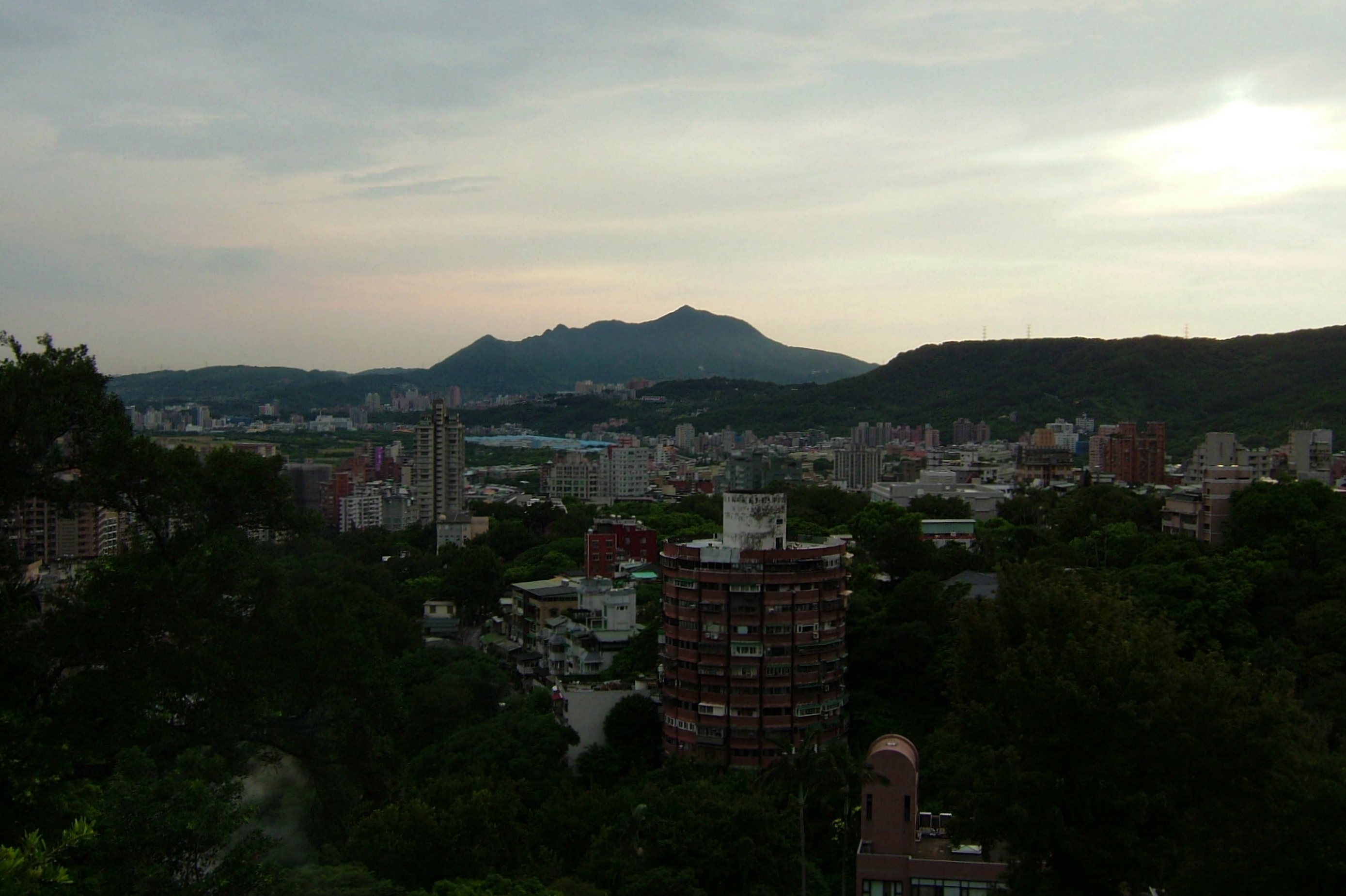 TáiběiBěitóu DistrictQuánYuán RdView to WestGuan Yin Mountain